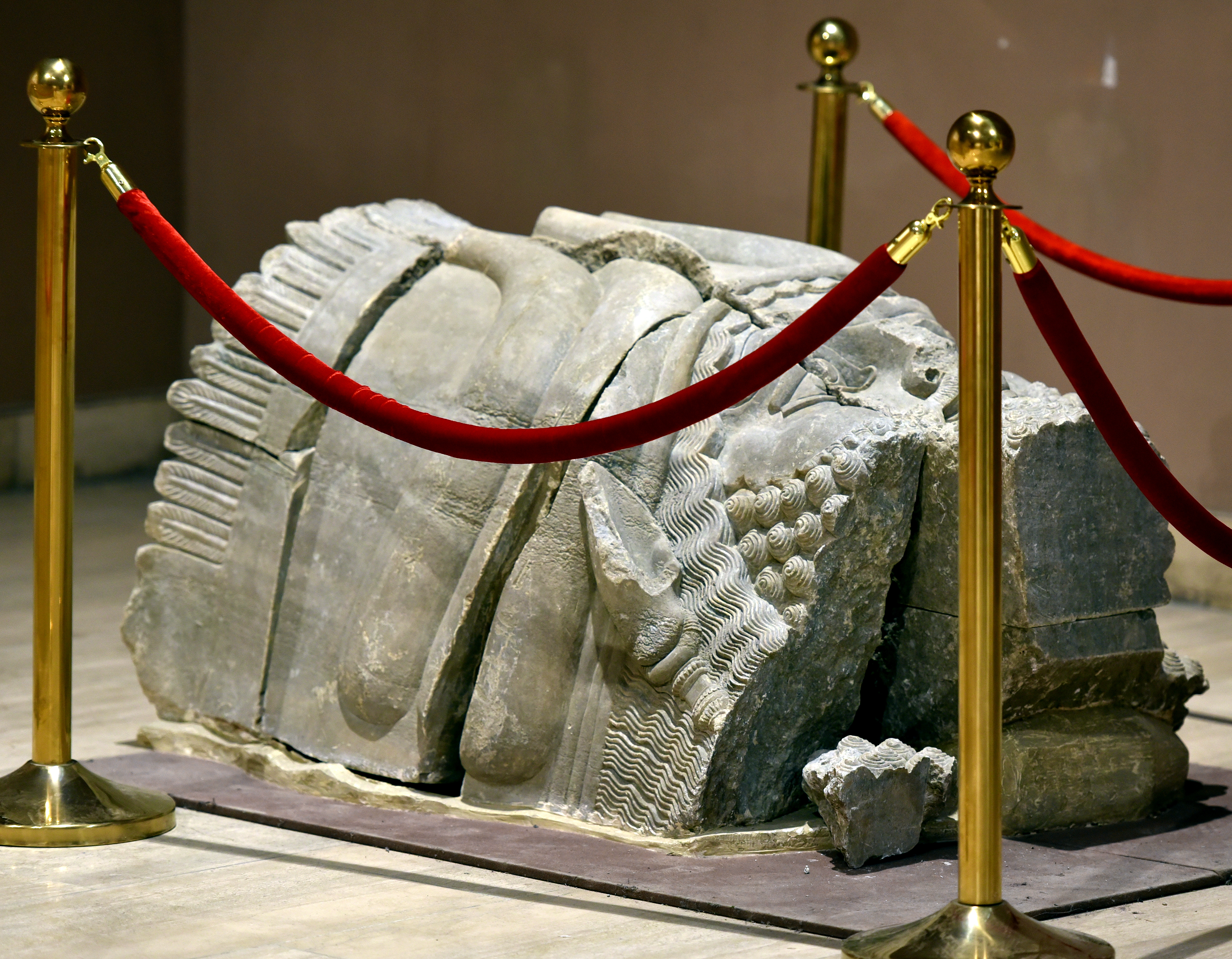 This lamassu's head came from Khorsabad. It was illegally unearthed and cut into several pieces for easier transportation and smuggling to a neighboring country in the 1990s. The intelligence intercepted the operation and many plunderers got executed in public. The mastermind of the looting was a police colonel. The Iraq Museum intentionally did not repair the defragmented head; a lesson to future generations. From The Royal Palace of Sargon II at Khorsabad, Iraq. Circa 710 BCE. On display at the Assyrian Gallery of the Iraq Museum in Baghdad, Iraq.